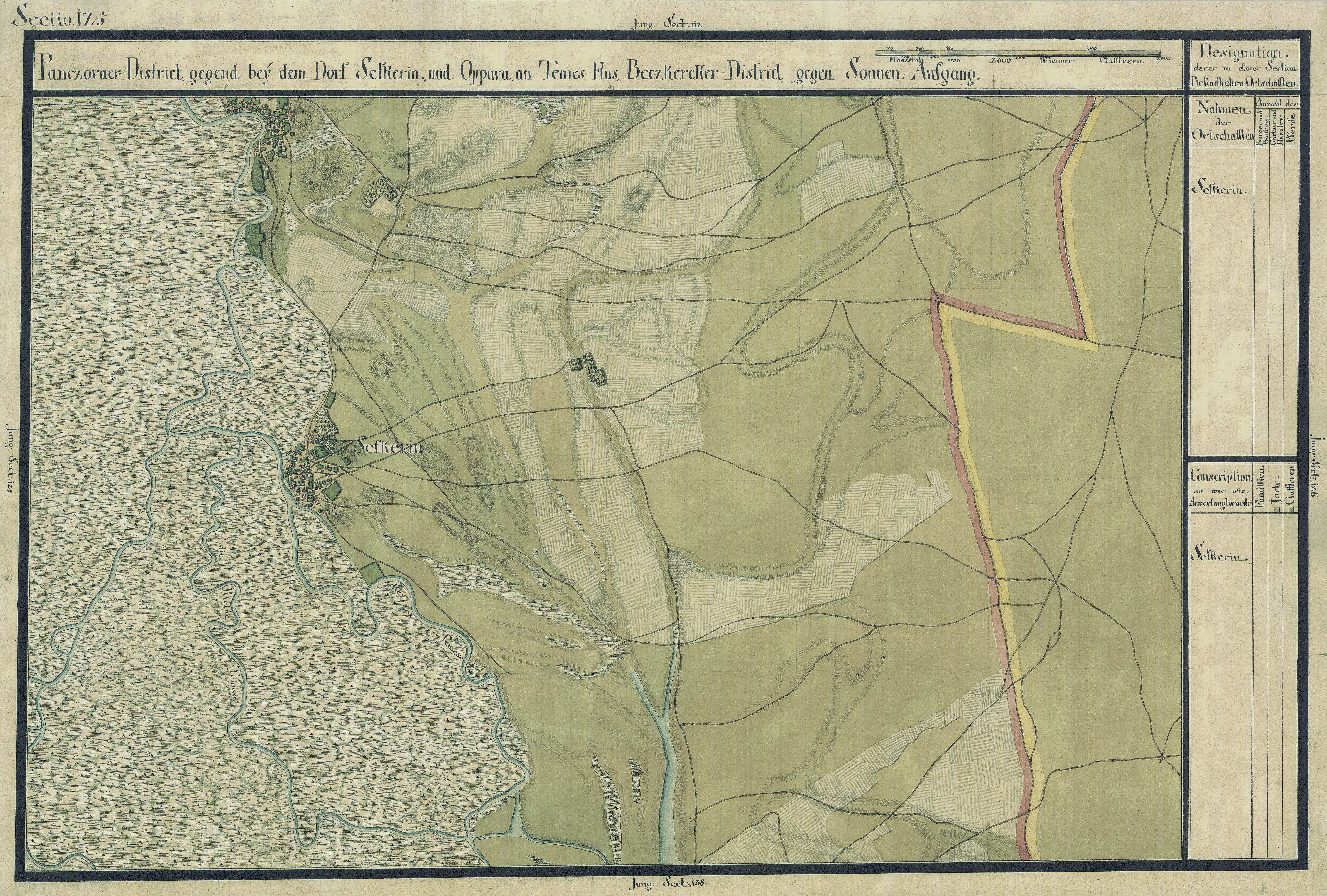 The Banat region in the cadastral maps: Josephinische Landesaufnahme, 1769-72. Josephinische Landaufnahme pg125